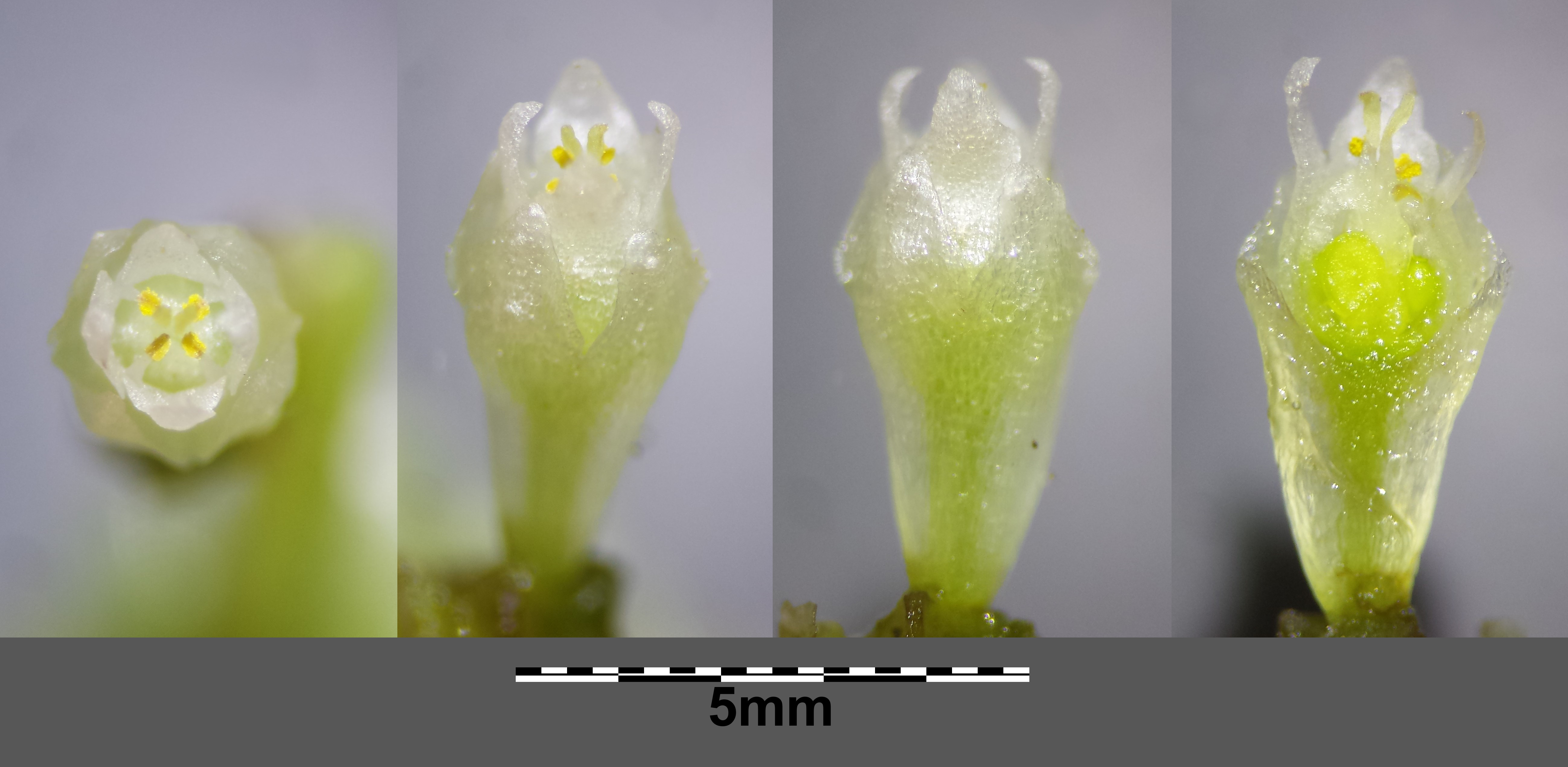 Flower Taxonym: Cuscuta europaea ss Fischer et al. EfÖLS 2008 ISBN 978-3-85474-187-9 Location: next to Harmannstein, Großschönau, district Gmünd, Lower Austria - ca. 800 m a.s.l. Habitat: wayside